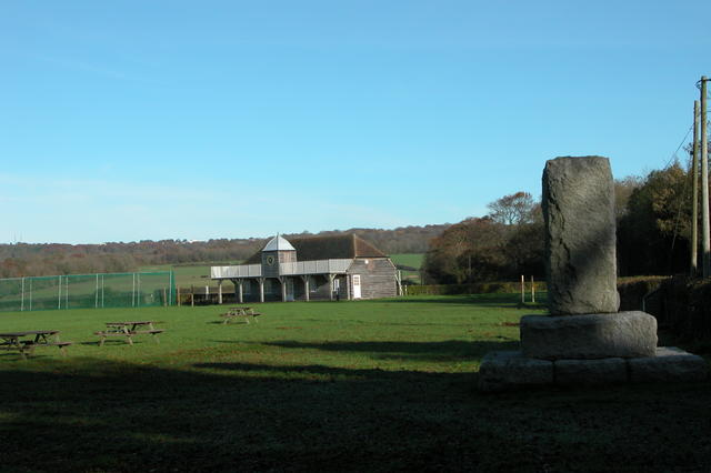 Hambledon cricket club Broadhalfpenny Down. The spiritual home of English Cricket, this village club played the All England team 51 times, and won 29 of the matches.